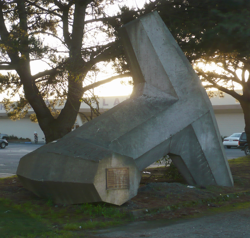 One of the 4,796 dolosse made on the South Spit for use on the south and north jetties protecting the mouth of Humboldt Bay. This one is the only one not in the jetties; it is on display in front of the Eureka Chamber of Commerce on Broadway at Hawthorne Streets, Eureka, California. The plaque reads: "This dolos, weighing 42 tons, the 1,972nd of 4,796 cast by the Umpqua River Navigation company for the reconstruction of the Humboldt Bay jetties, is dedicated to the seafaring men of Humboldt --- Past, Present, and Future. Dated December 28, 1972."